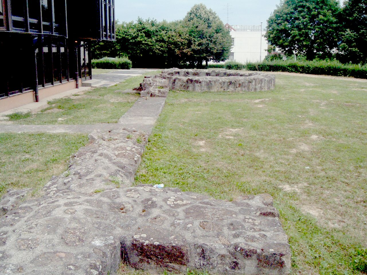 The ruins of the ancient cistercian monastery and fortress (12. c.) in Szentgotthárd